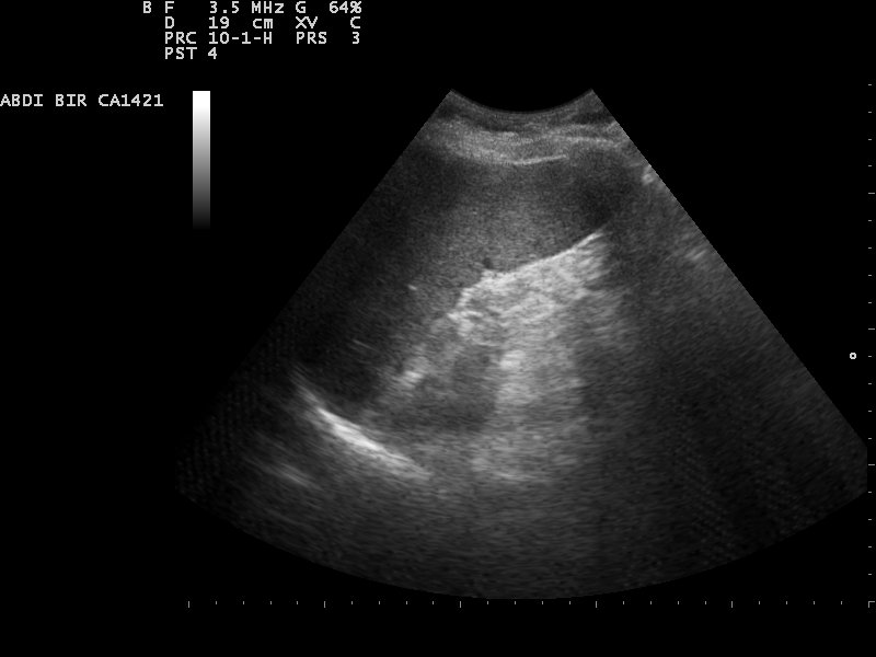 Ultrasound image of spleen